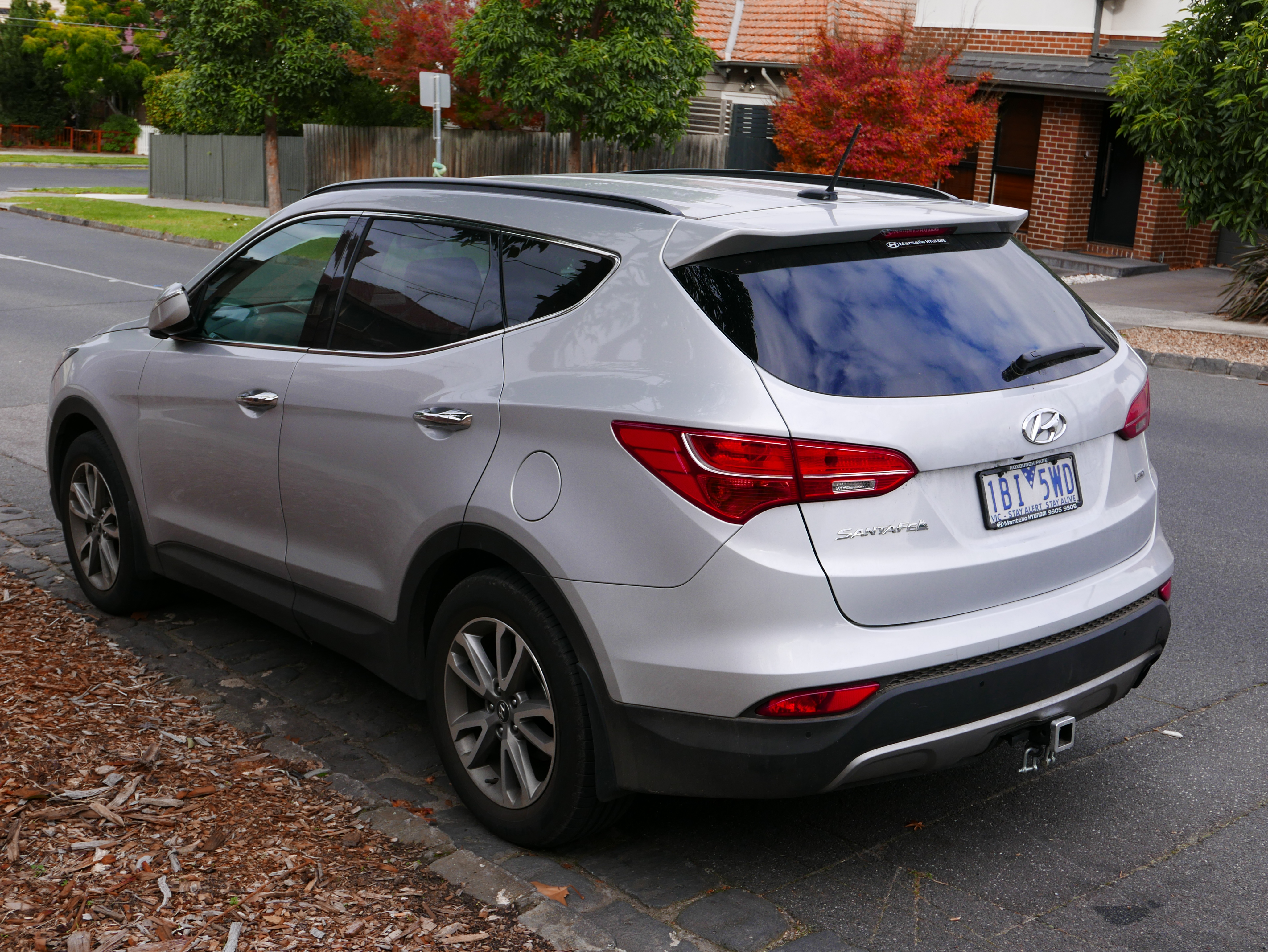 2014 Hyundai Santa Fe (DM MY14) Elite wagon. Photographed in Northcote, Victoria, Australia. Vehicle registration enquiry resultsJurisdictionVictoriaRegistration1BI5WDChassis codeKMHSU81XSEU287584Engine codeD4HBEU942267Compliance date2014-02Year of manufacture2014